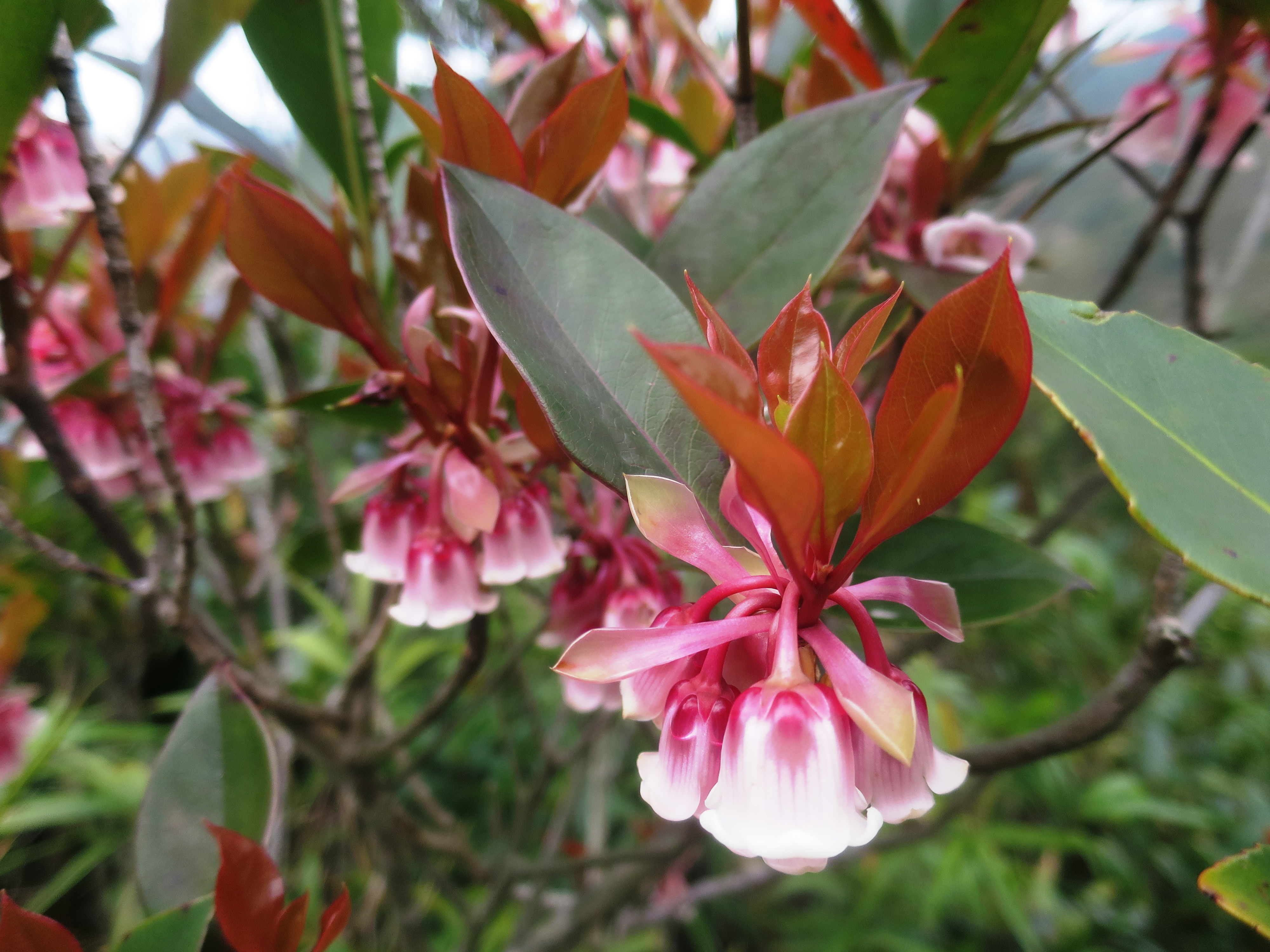 Blooming Enkianthus quinqueflorus in Sai Kung